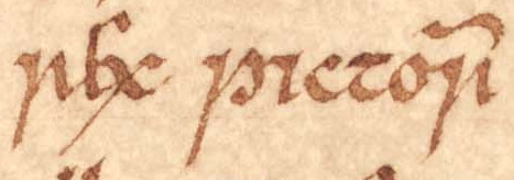 An excerpt from folio 26r of Oxford Bodleian Library MS Rawlinson B 489 (the Annals of Ulster). The excerpt concerns Áed mac Cináeda, King of the Picts (died 878).